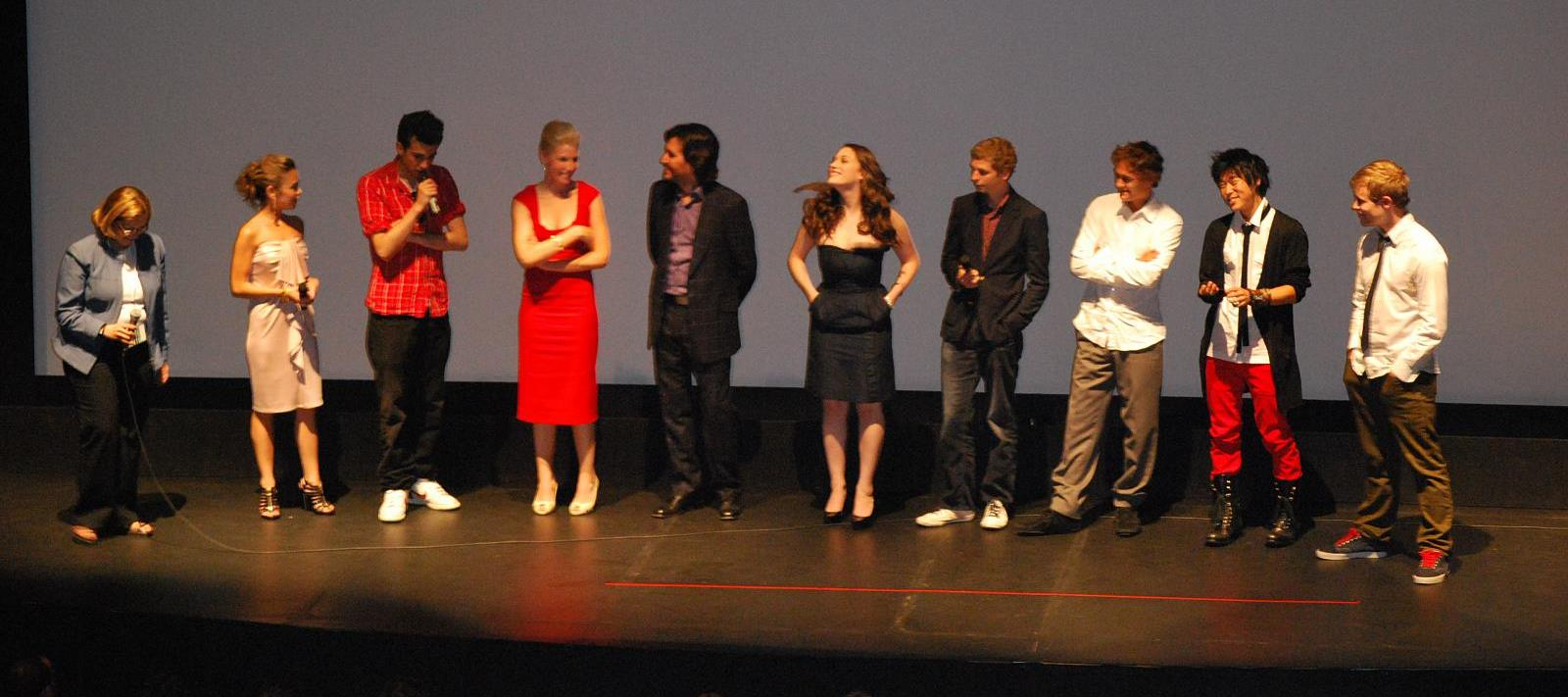 Nick and Norah's Infinite Playlist at the 2008 Toronto International Film Festival. Left to right: announcer, Alexis Dziena, Jay Baruchel, Ari Graynor, Peter Sollett, Kat Dennings, Michael Cera, Rafi Gavron, Aaron Yoo, Jonathan B. Wright.